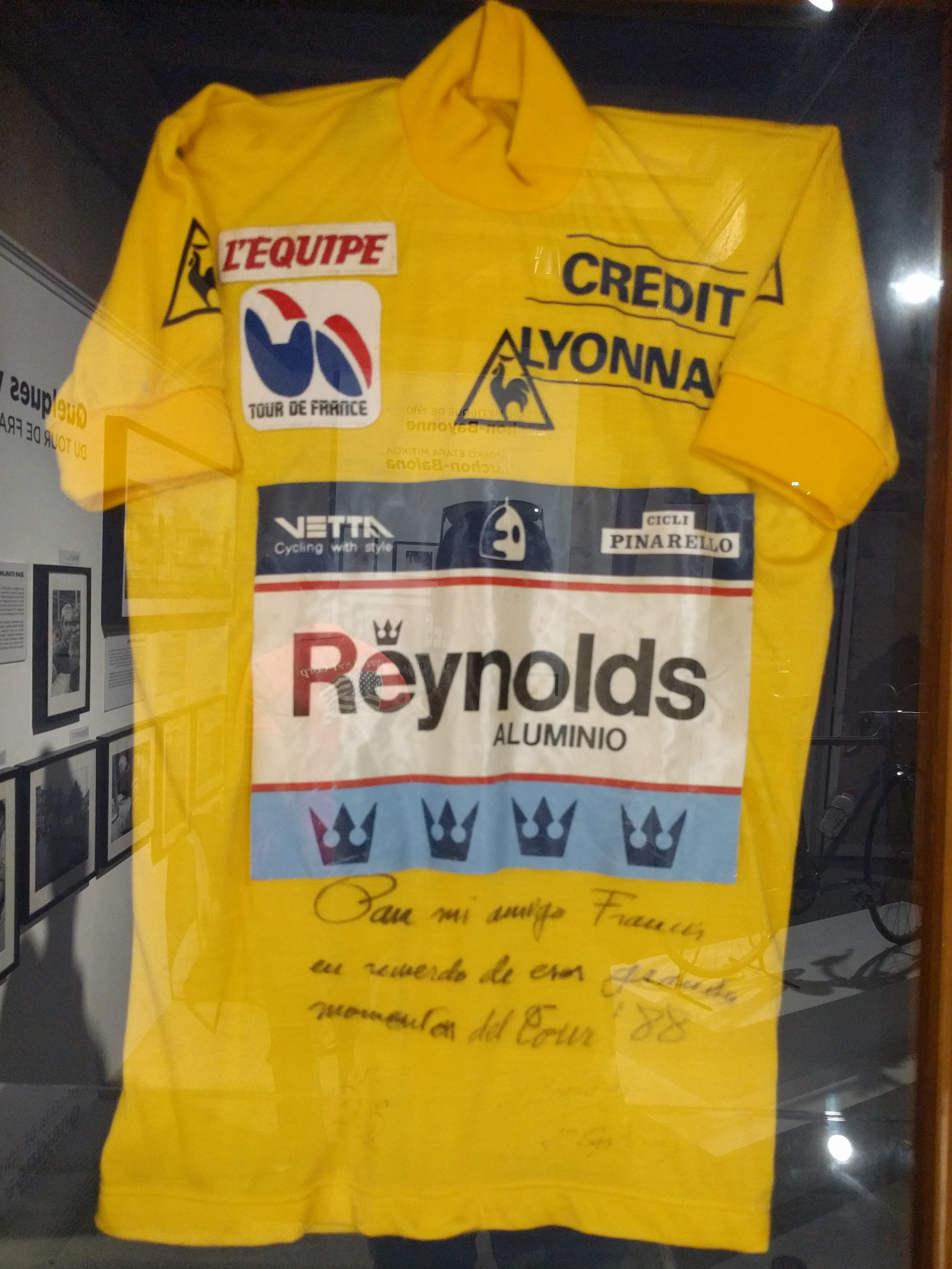 Pedro Deglado's yellow jersey, 1988 Tour de France